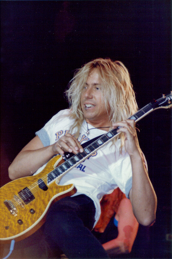 Jeff Watson 101.1 KLOL celebrity Rock and Roll auction. Houston, Texas 1993.